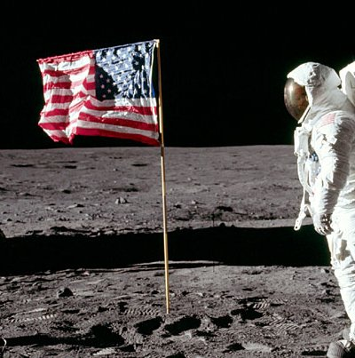 Cropped from Image:AldrinFlag2.jpeg (now called Image:NASA AS-11-40-5875.jpg) by For great justice. 16:16, 10 April 2006 (UTC)